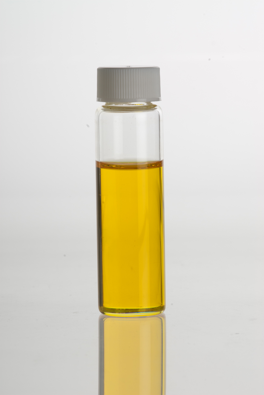 Mandarin (Citrus reticulata) Essential Oil in clear glass vial